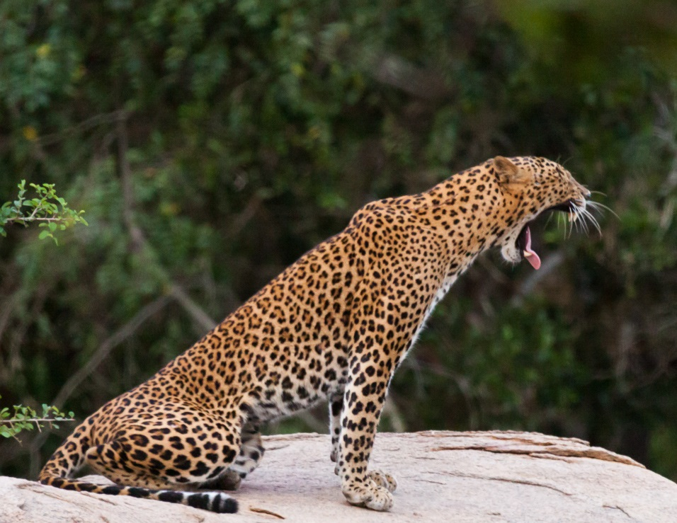 Sri Lankan leopard, Yala National Park